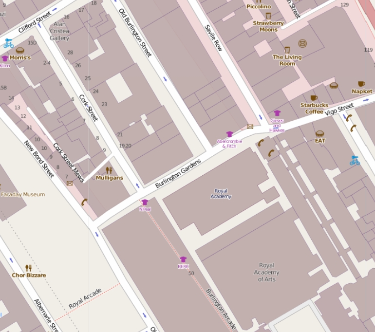 Burlington Gardens, London on Open Street Map.